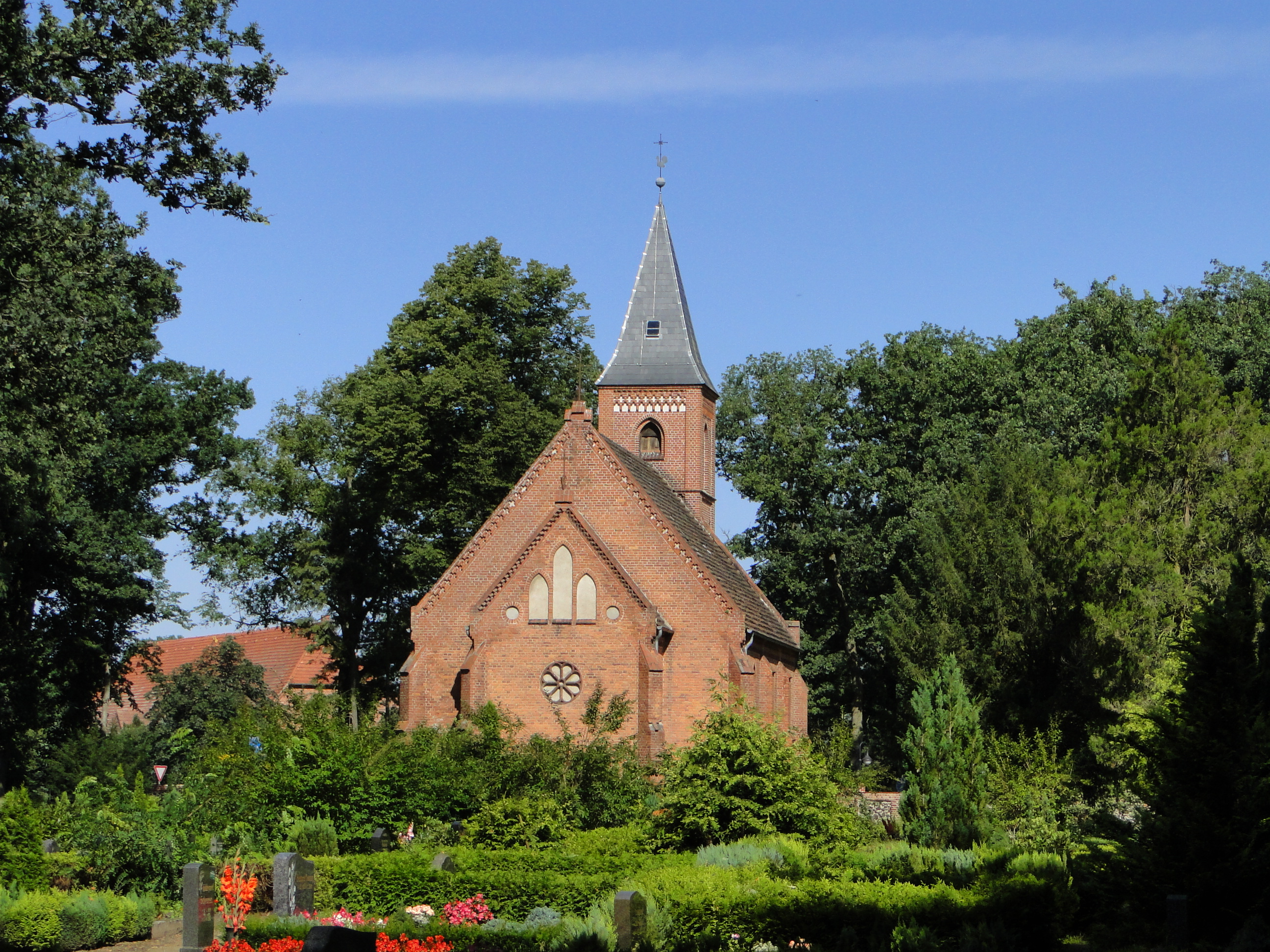 Church in Wöbbelin, district Ludwigslust, Mecklenburg-Vorpommern, Germany